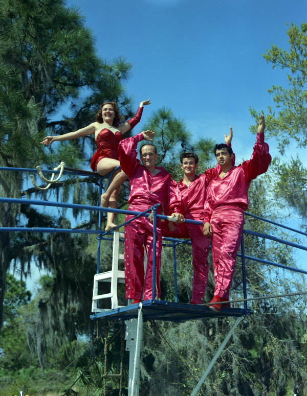 Local call number: JJS2141 Title: The Flying Wallendas: Sarasota, Florida Date: ca. 1965 General note: L-R: Carla Wallenda, Karl Wallenda, Raymond Chitty, and Richard Guzman (Carla's husband). The Great Wallendas were noted throughout Europe for their four-man pyramid and cycling on the high wire. The act moved to the United States in 1928 and began an association with the Ringling Brothers and Barnum & Bailey Combined Circus. Physical descrip: 1 photonegative - col. - 5 x 4 in. Series Title: Joseph Janney Steinmetz Collection Repository: State Library and Archives of Florida, 500 S. Bronough St., Tallahassee, FL 32399-0250 USA. Contact: 850.245.6700. Persistent URL